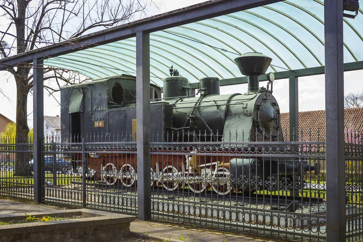 Orahovica